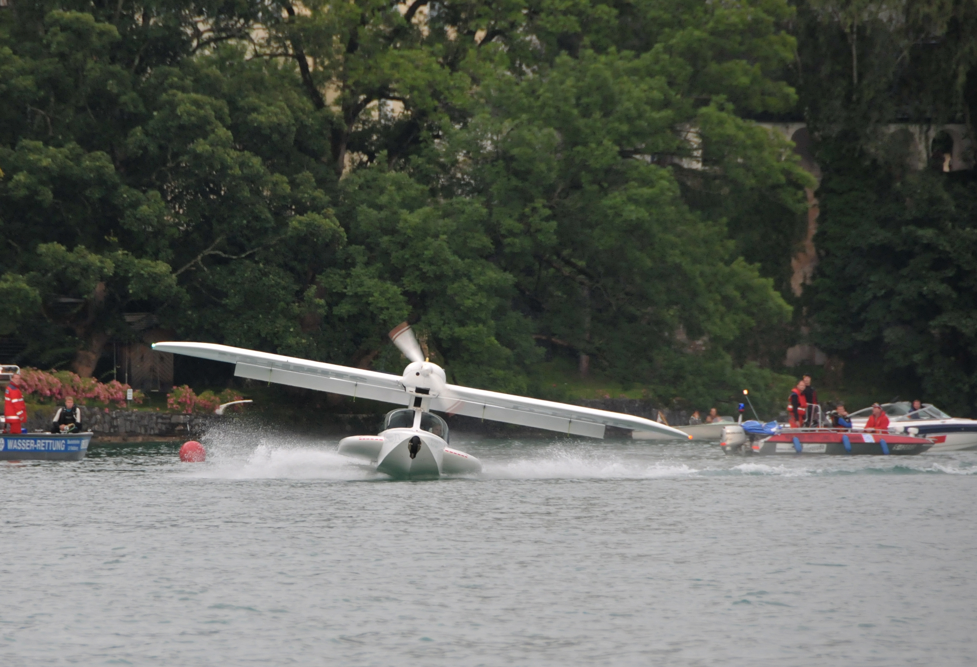 Dornier S-Ray 007 at the Scalaria Air Challenge 2008